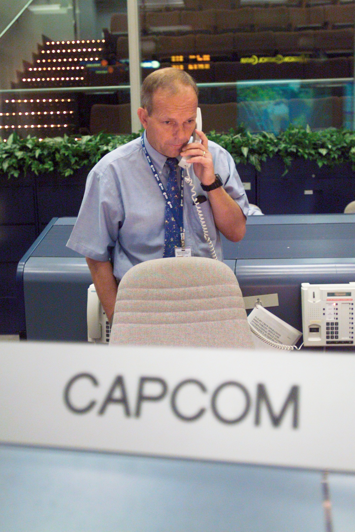 Hans Schlegel of Germany monitors data at the spacecraft communicator (CAPCOM) console